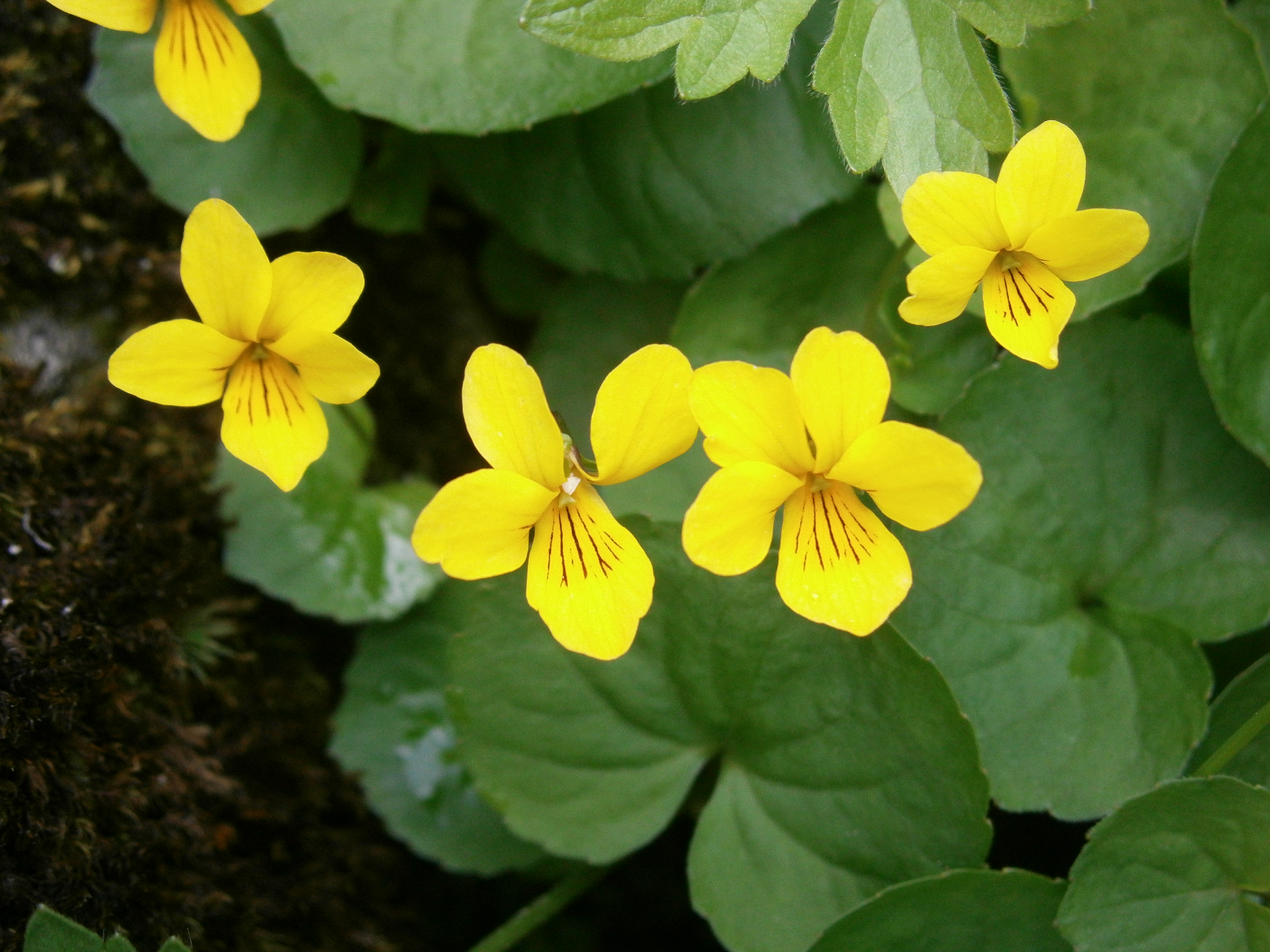 Viola biflora